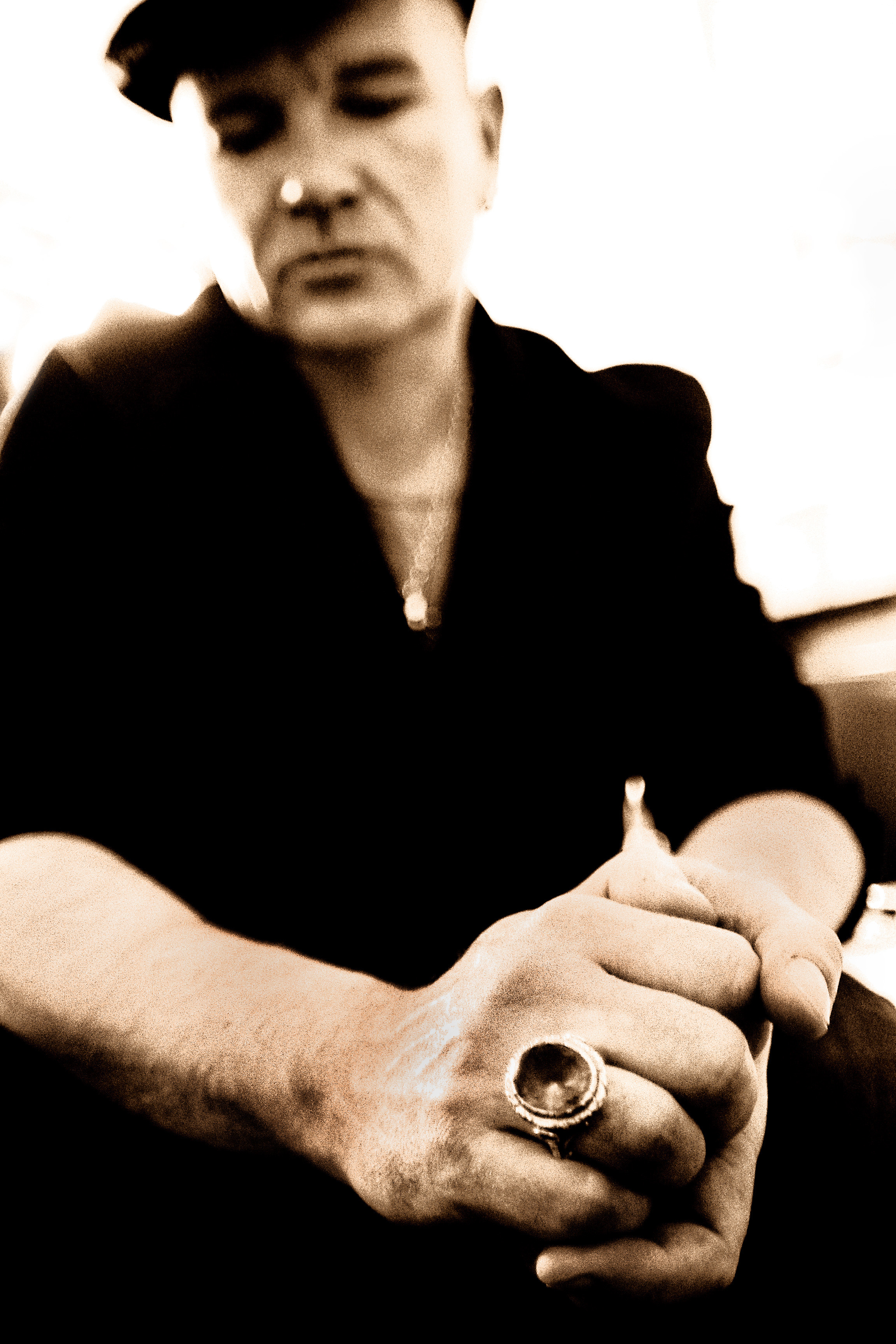 Gavin Friday, The Clarence, Dublin, July 4, 2007 Wearing Archbishop John Charles McQuaid's ring.